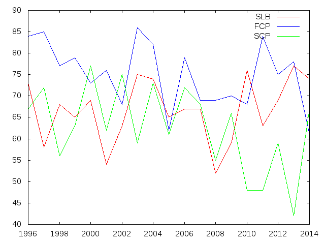 Portuguese soccer championship, points from 1996 to 2011